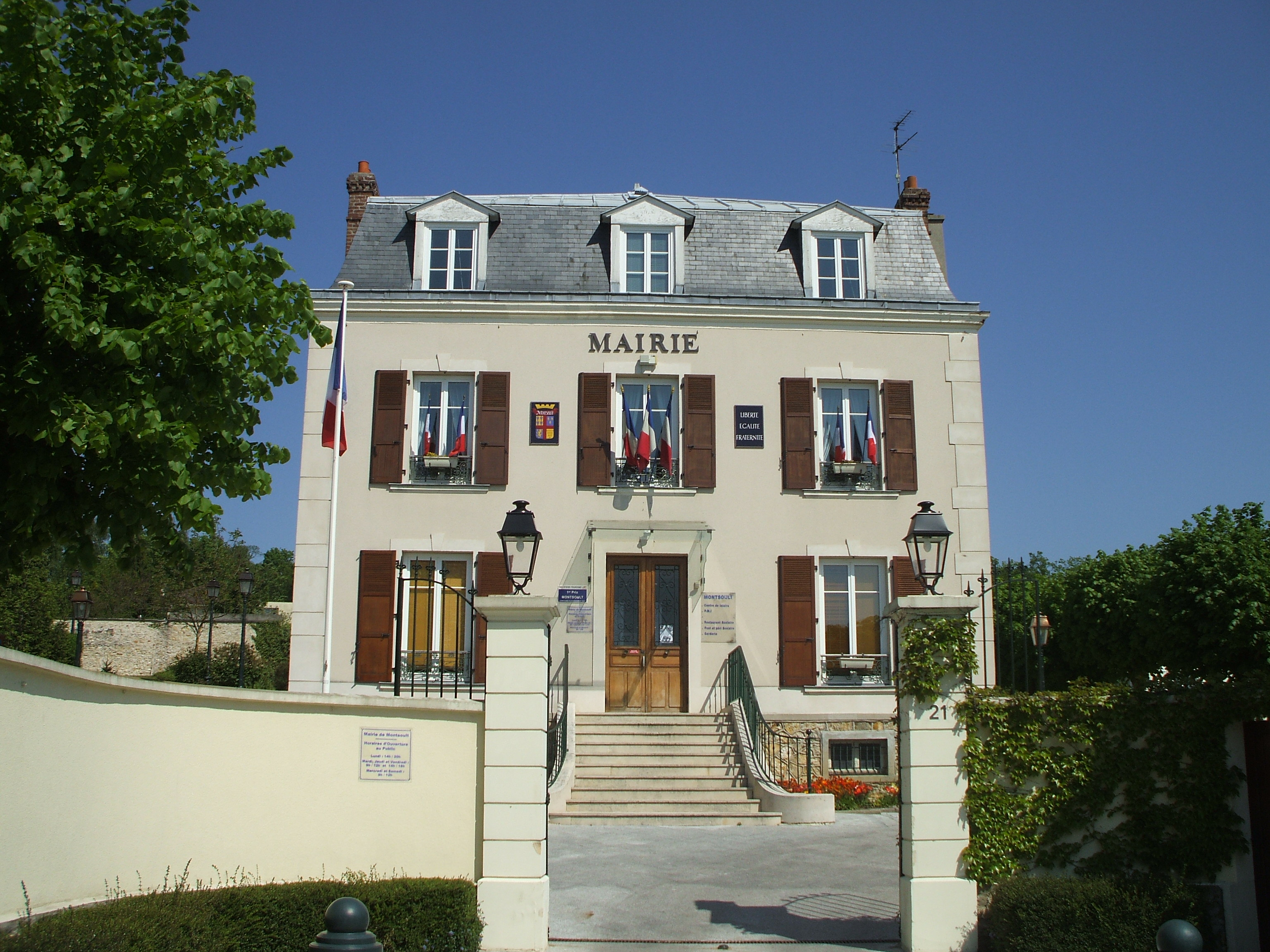 montsoult cityhall's val d'oise france